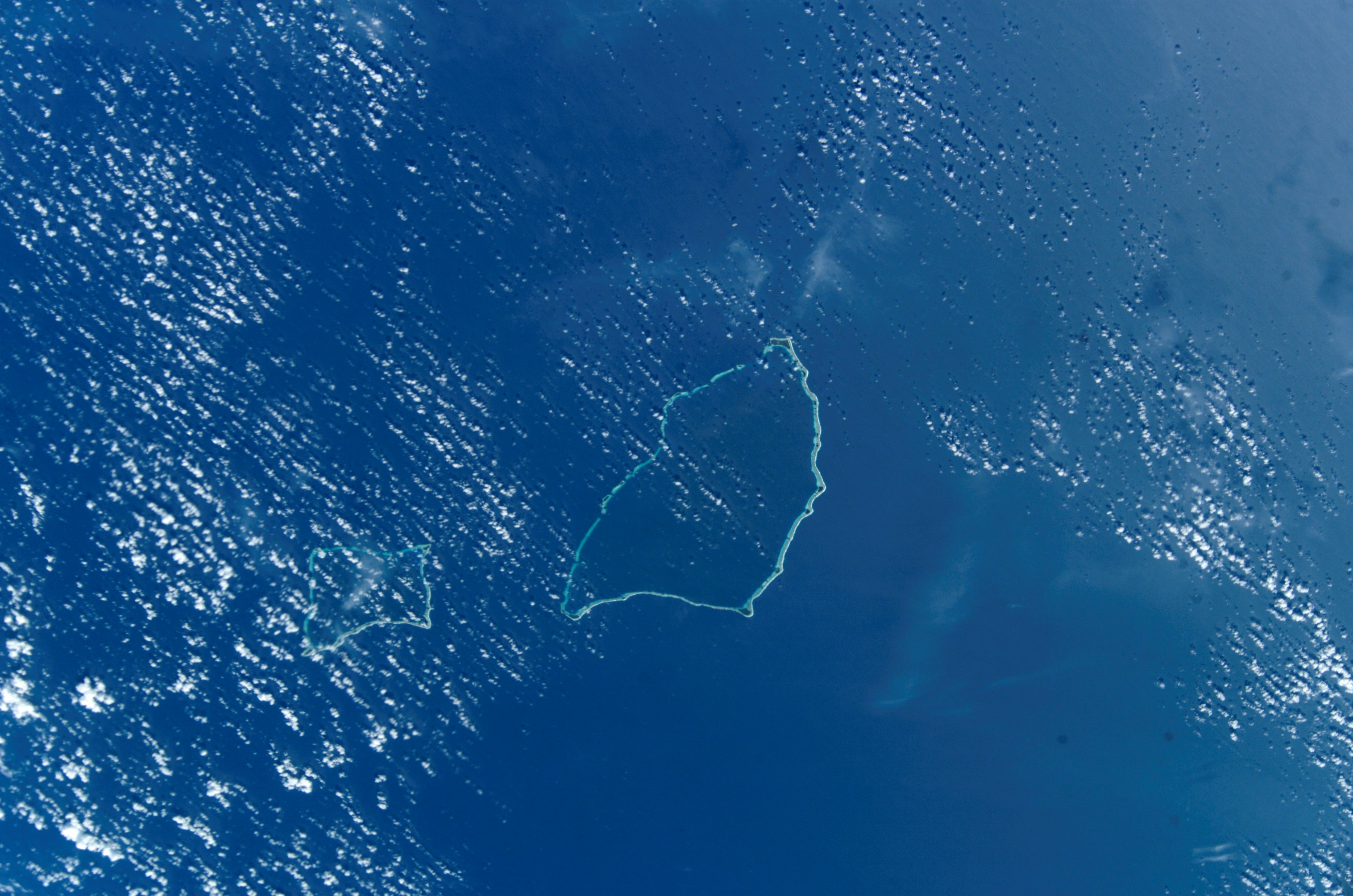 NASA Astronaut Image of Maloelap & Aur Atoll (Ralik Chain, Marshall Islands) in the Pacific Ocean